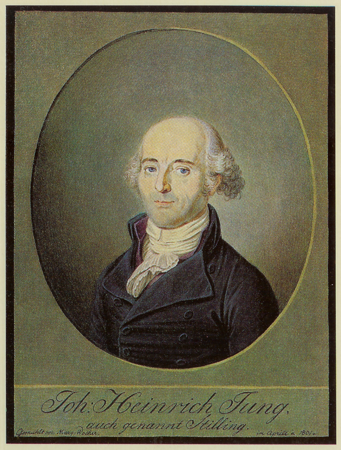 Johann Heinrich Jung-Stilling (1740-1817), German pietist, writer of religious literature, economist and forestry scientist.